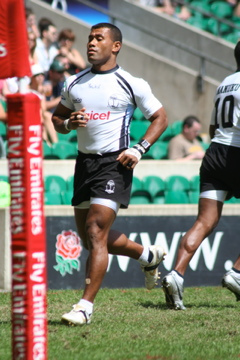 Photo of Waisale Serevi at the 2006 London Sevens (rugby union).